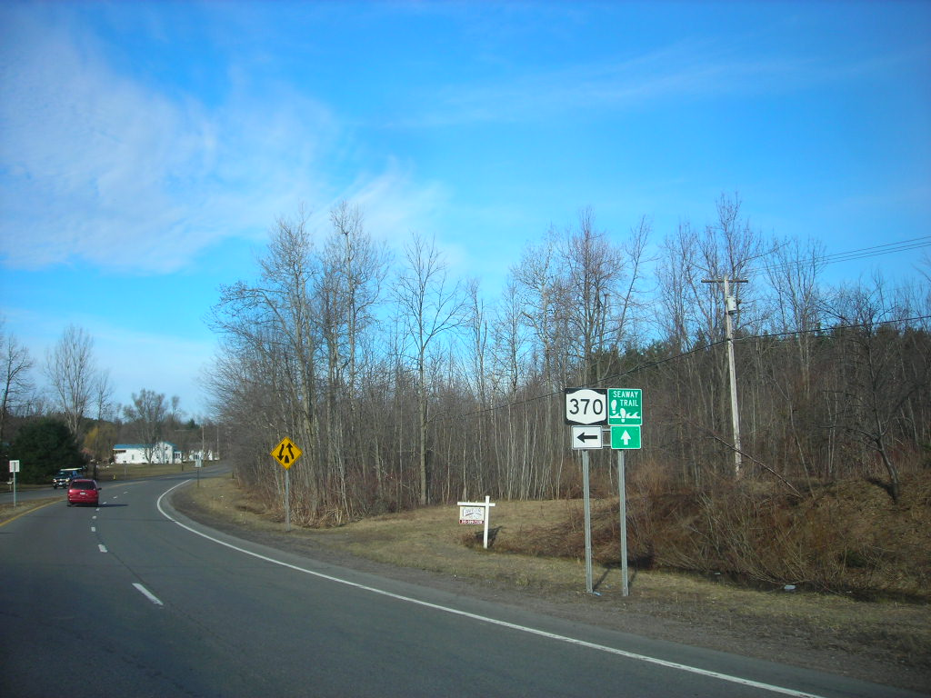 Eastbound on New York State Route 370 at Ridge Road south of Red Creek. NY 370 turns eastward toward Syracuse at this point while Ridge Road carries the Seaway Trail westward toward Wolcott.